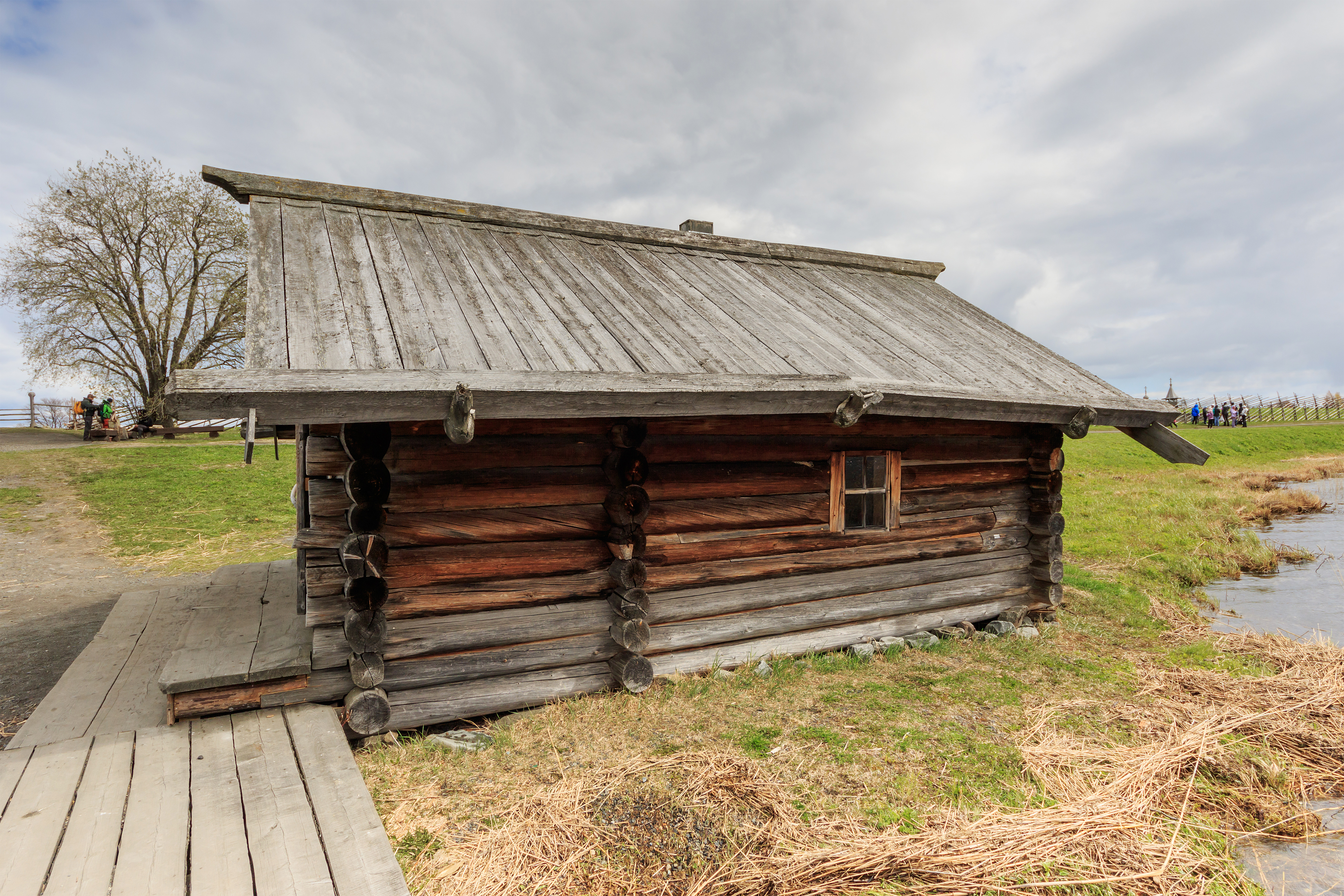 Bathhouse from Mizhostrov on Kizhi Island, Republic of Karelia (Russia).